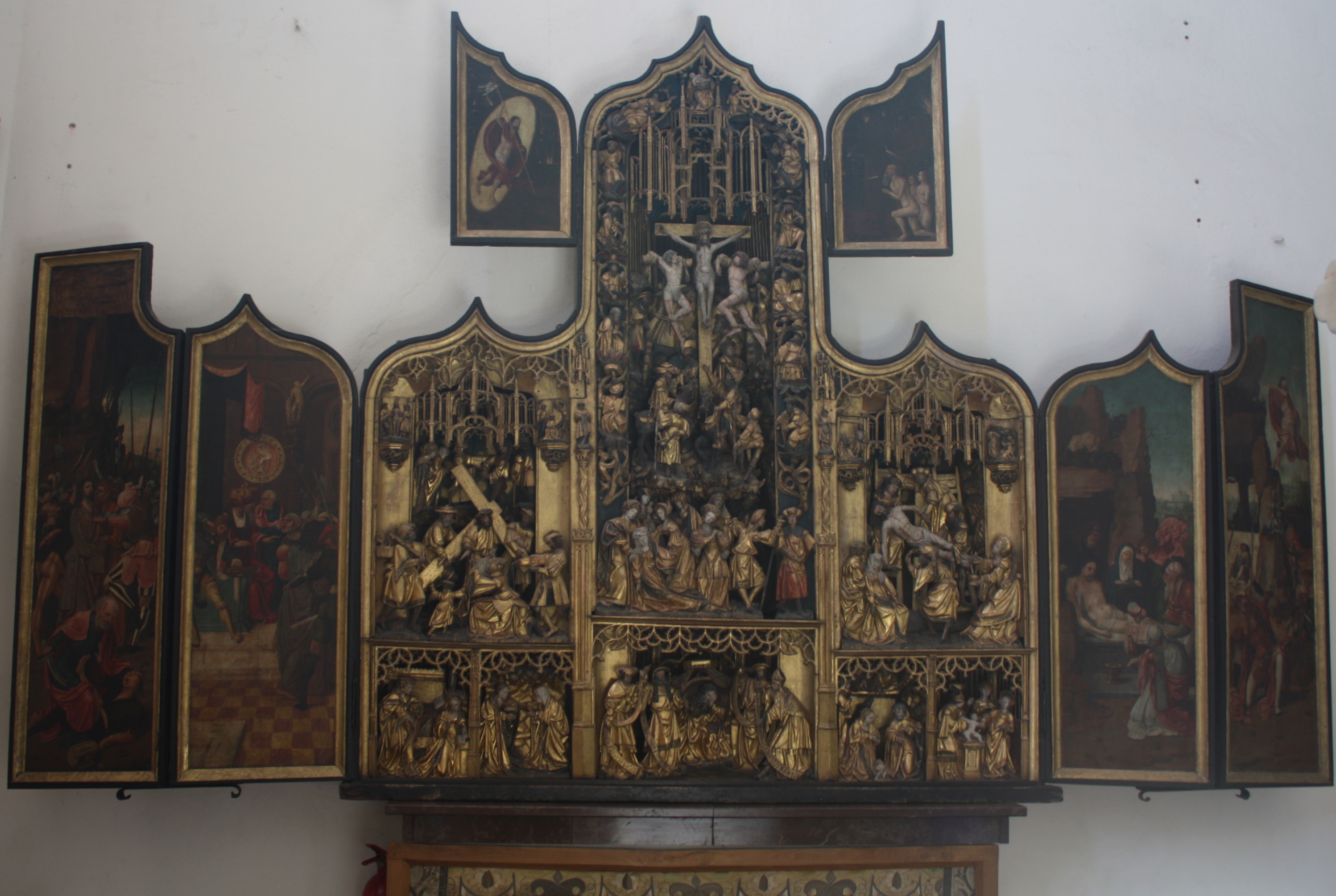 Żukowo, Church of Saint Mary of the Assumption